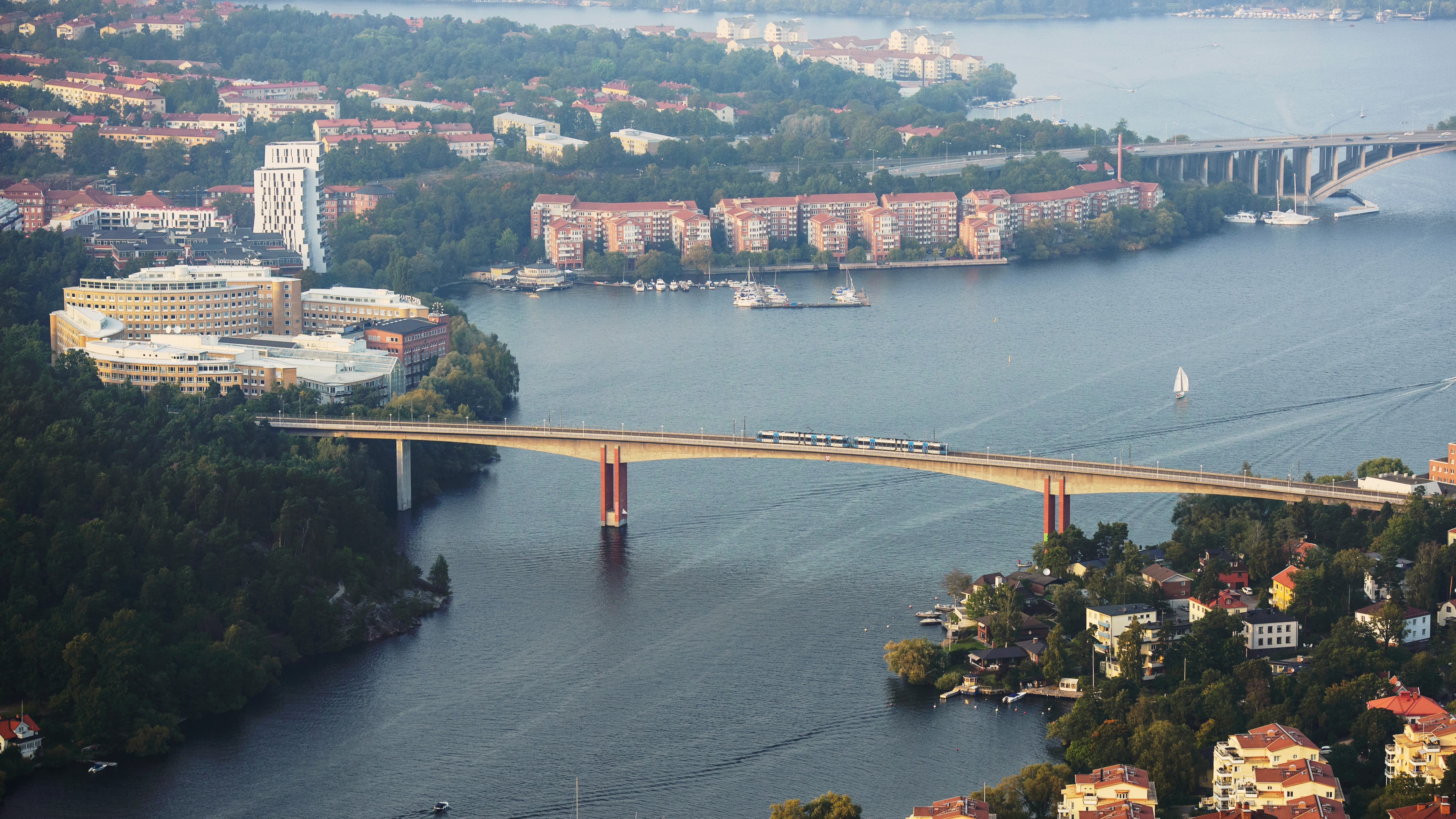 The tram brigde Alviksbron in Stockholm.